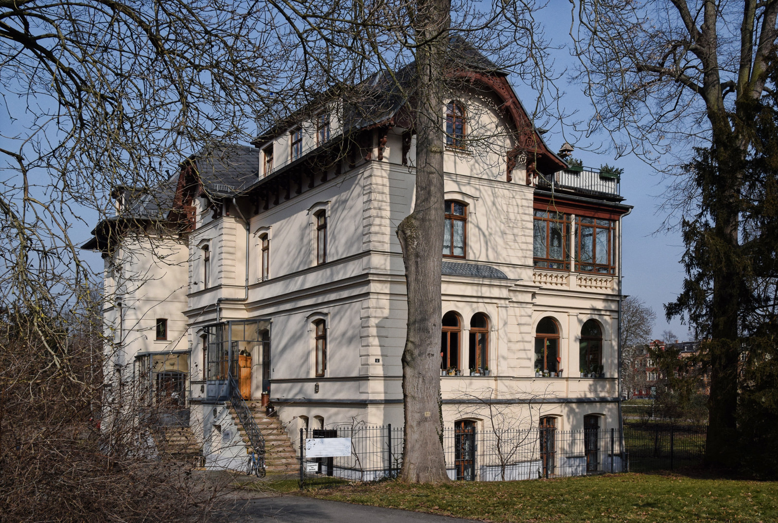 Villa Nolle at Küchengartenallee 6 in Gera, Germany; built in 1890 by architect Kornmann